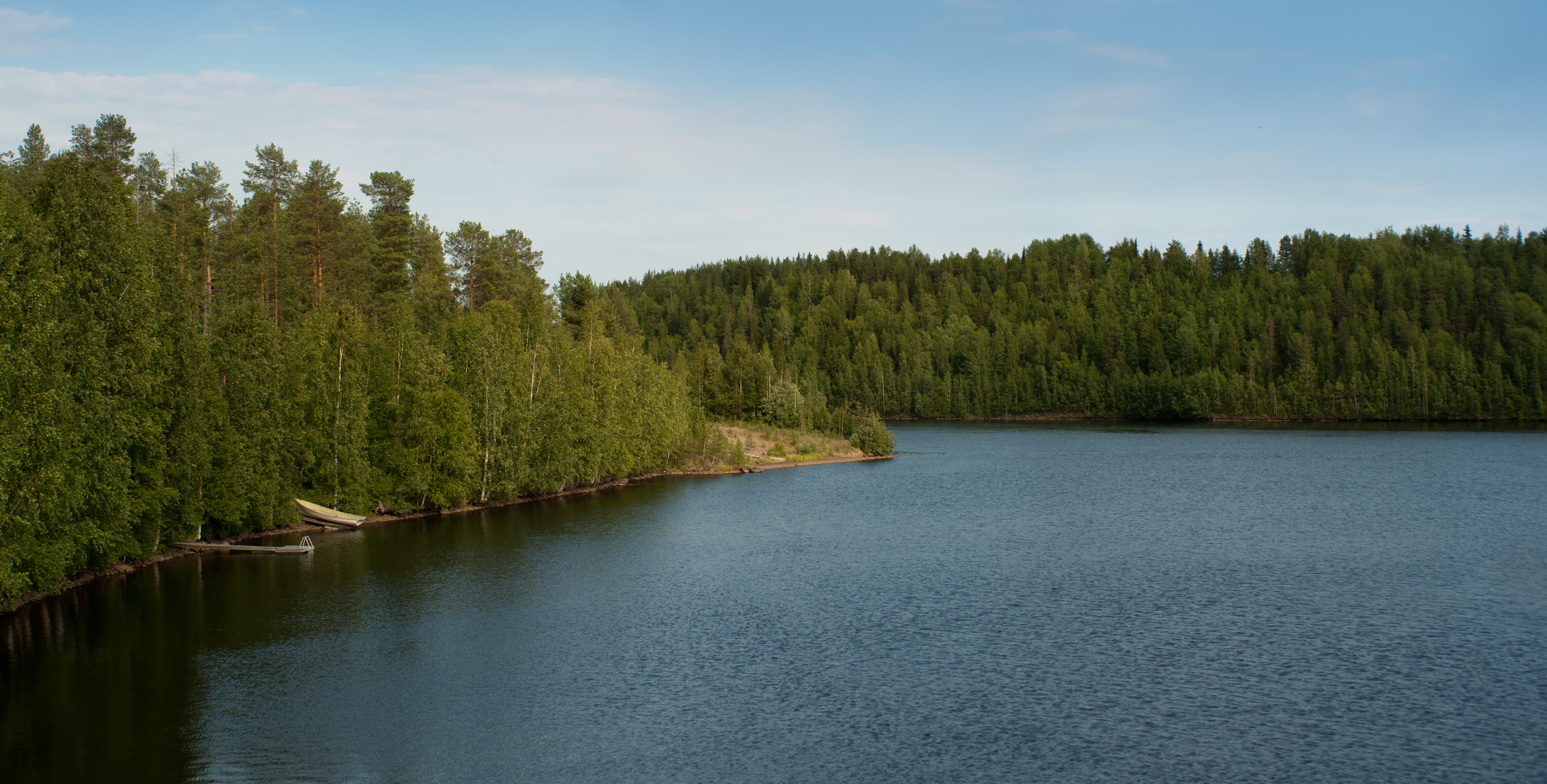 River Kemijoki at Vanttauskoski, Rovaniemi, Finland.